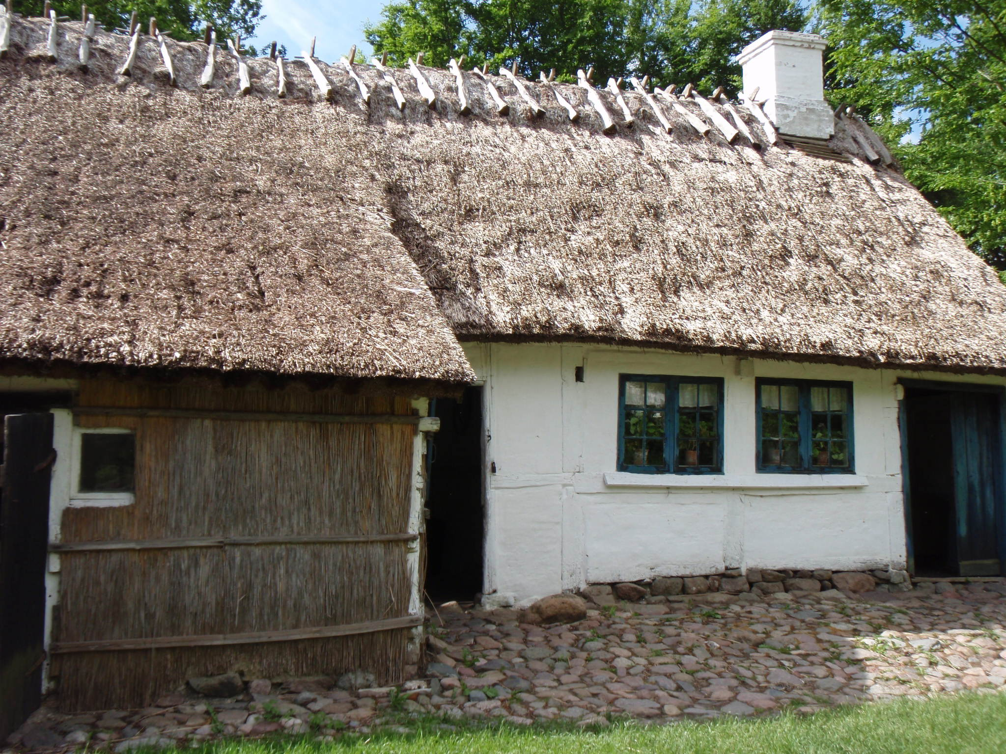 Farm on the Open Air Museum in Brede Denmark